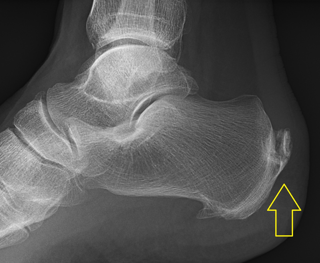 Calcification deposits forming an enthesophyte within the Achilles tendon at its calcaneal insertion, in a 68 year old woman with pain and swelling by the heel, further pointing to the diagnosis of Achilles tendinitis. The Achilles tendon (seen as somewhat brighter than the surrounding soft tissue in this X-ray presentation) is wider than normal, further suggesting inflammation.